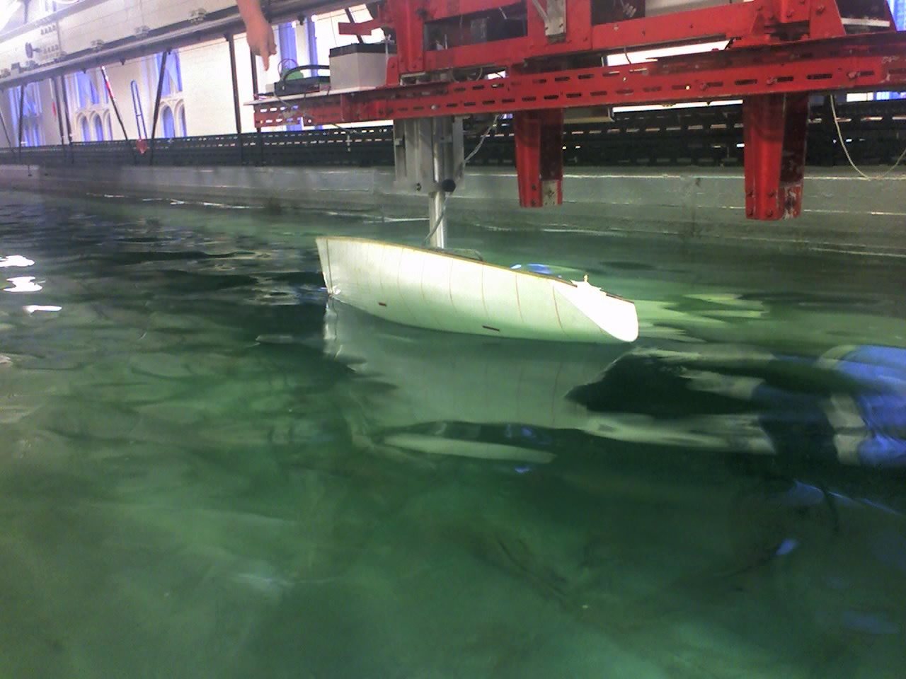 The hull of a model ship photographed in the towing tank of Newcastle University.